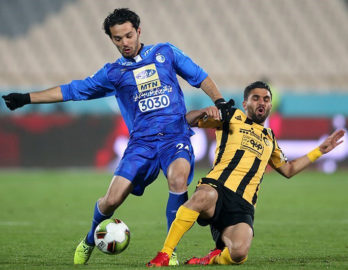 Omid Noorafkan against Sepahan in 2017